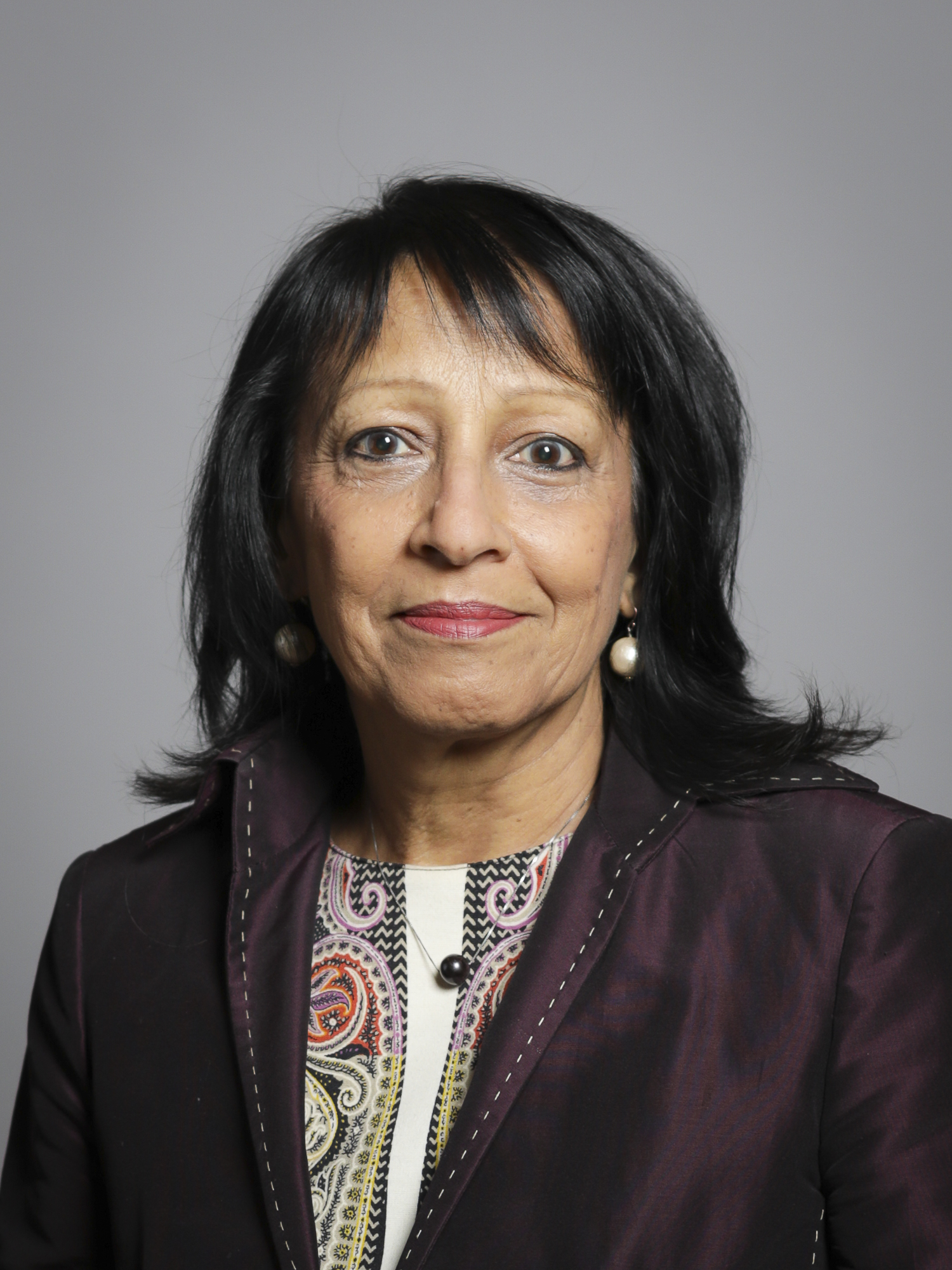 Official portrait of Baroness Falkner of Margravine 3×4 portrait of Baroness Falkner of Margravine